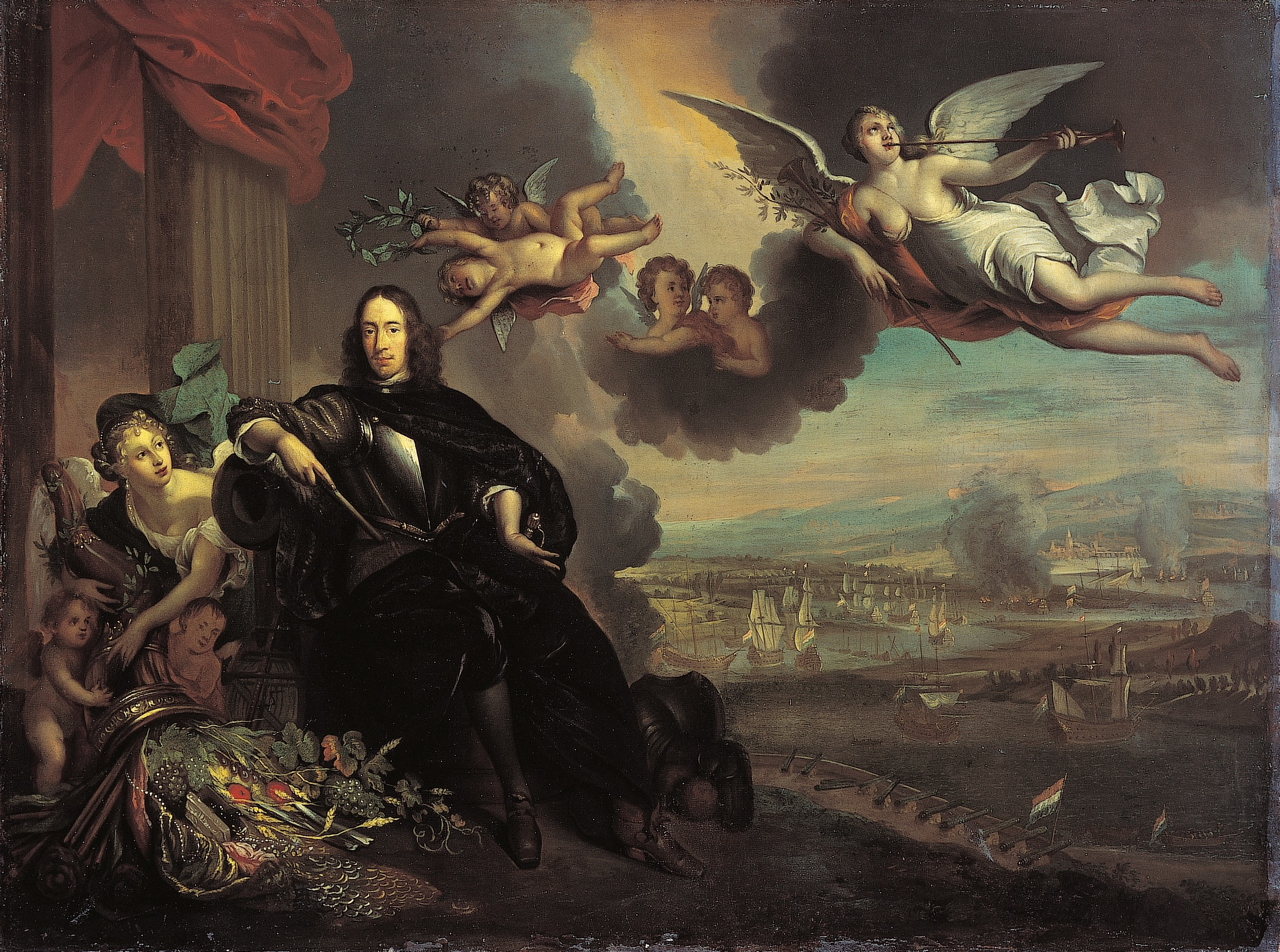 The apotheosis of Cornelis de Witt, with the raid on Chatham in the background. The original by Jan de Baen, kept in the City Hall of Dordrecht, was destroyed in 1672. References for this description (or part of this) or for the depiction in the file are not provided.